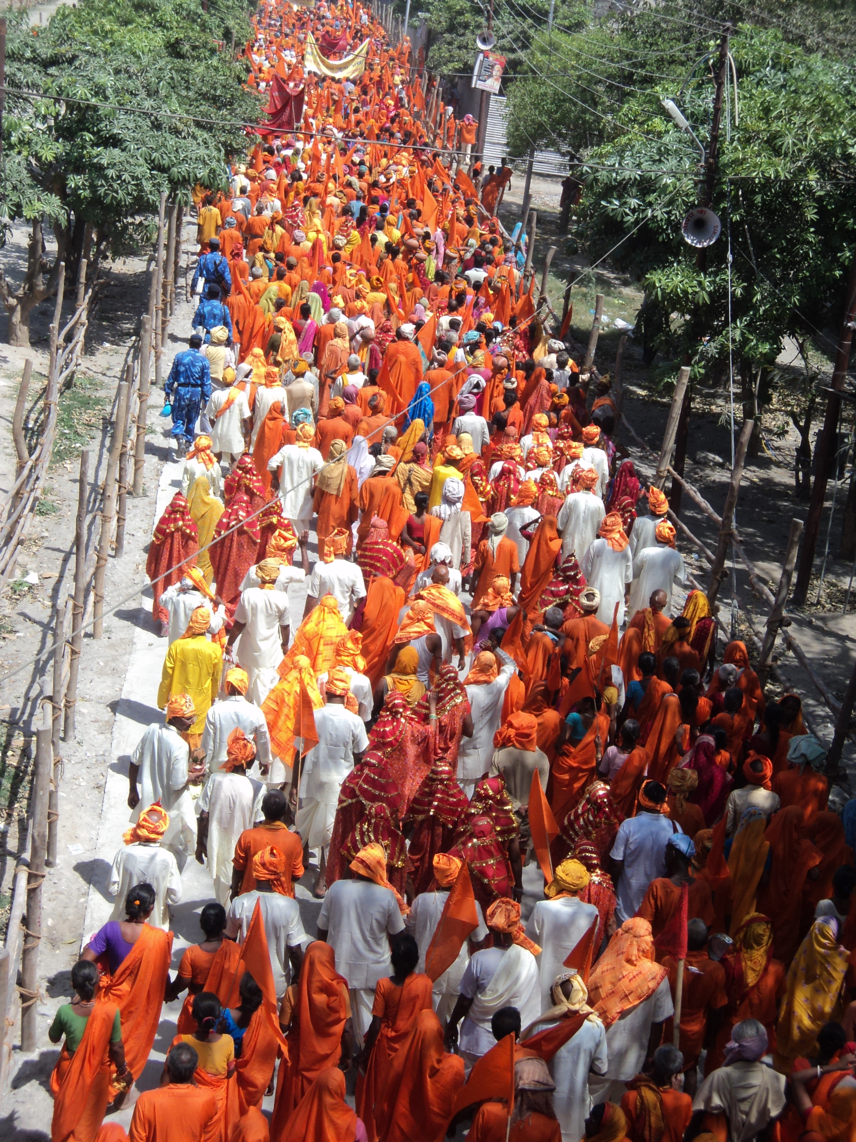 The followers of a sect headed towards the river Ganga for a ritual dip; dressed in similar garments, they seemed to be a river of people themselves.